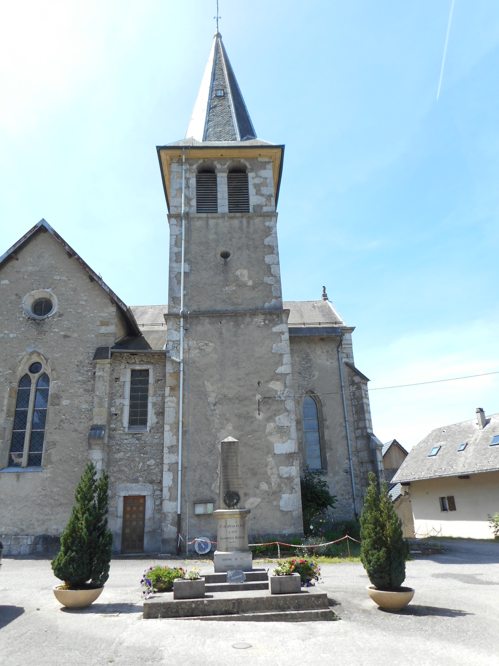 Church and war memorial of Saint-Jean-de-Couz.